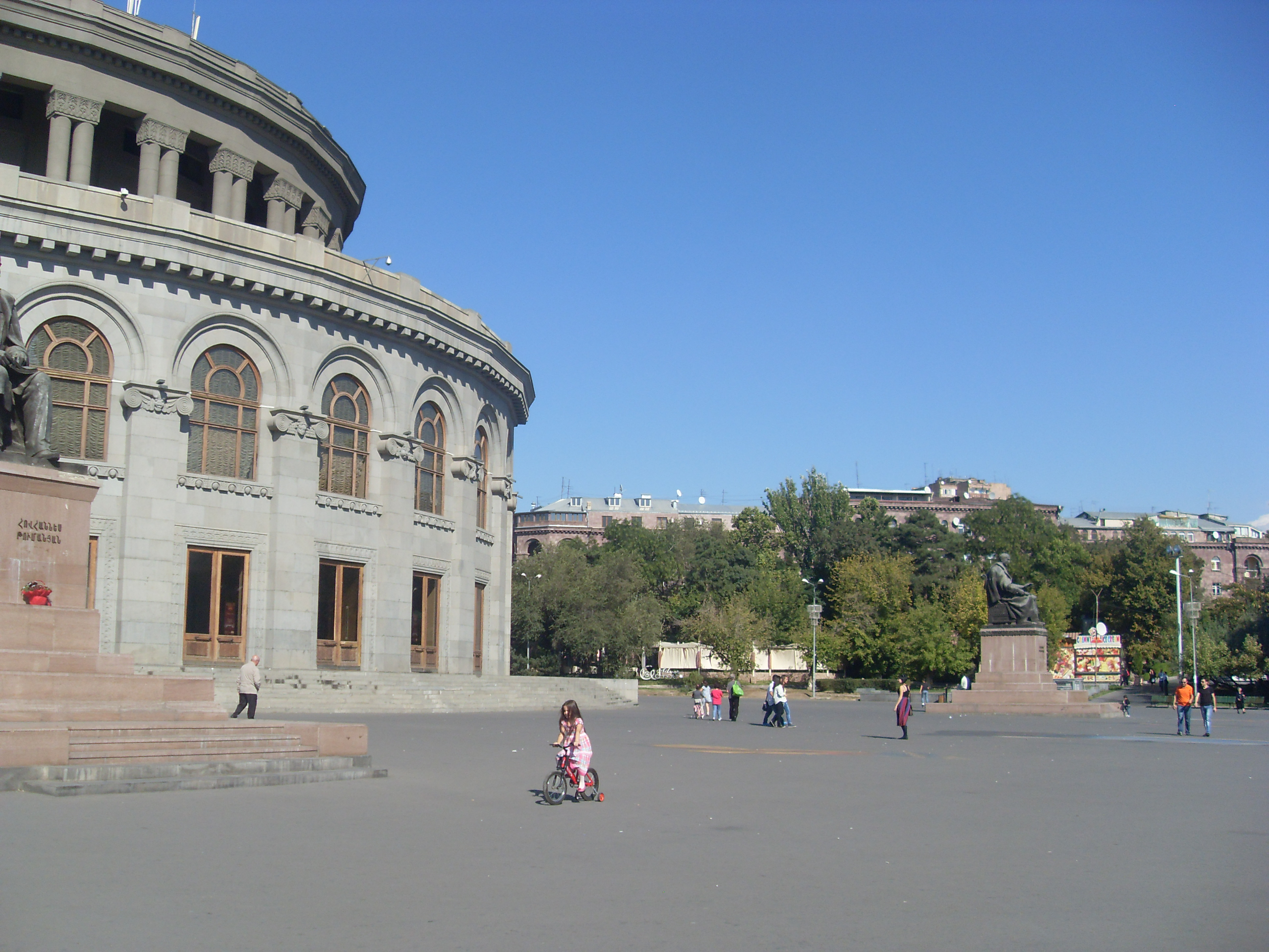 Liberty square, Yerevan, archit. Alexander Tamanyan, 1924-1939 6/95